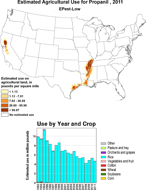 Propanil map of use, USA, 2011 (estimated)